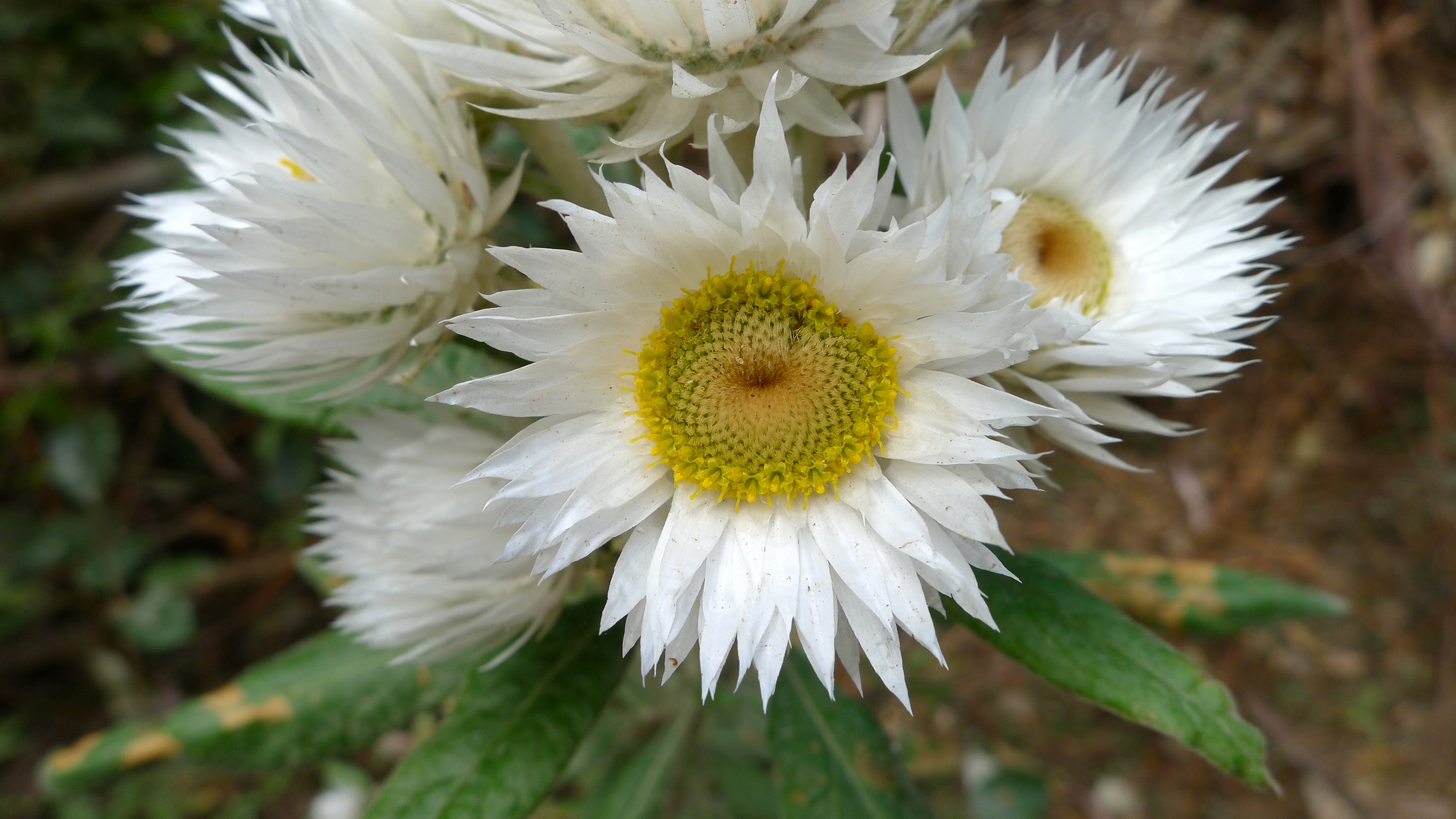 White Paper Daisy, Coronidium elatum, flower has a yellow centre, and many white papery bracts. New England National Park, NSW, Australia, August 2014.